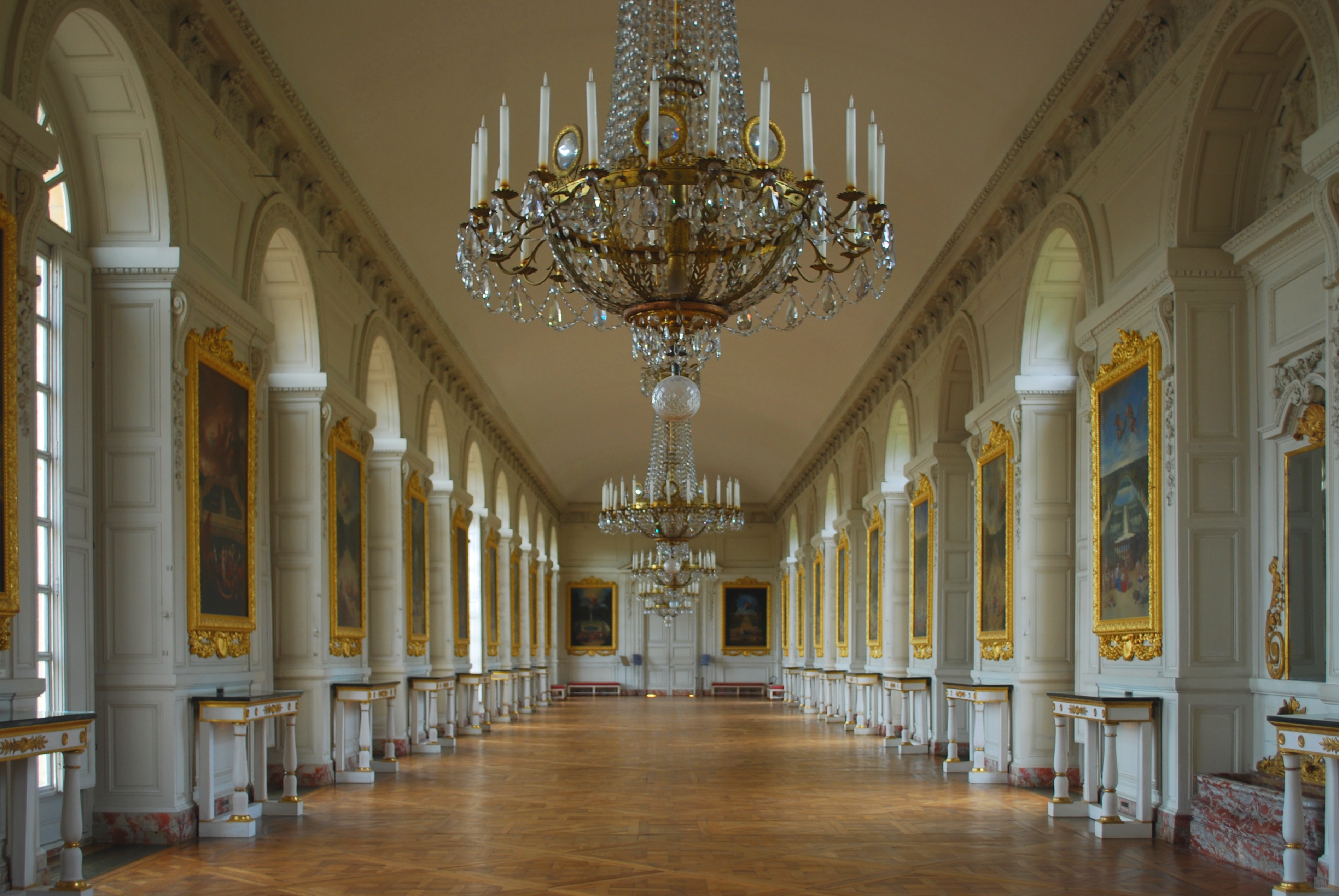 The Grand Trianon Castle Interior